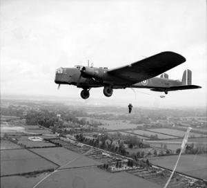 Parachute troops jump from a Whitley bomber during a demonstration for the King near Windsor, 25 May 1941.